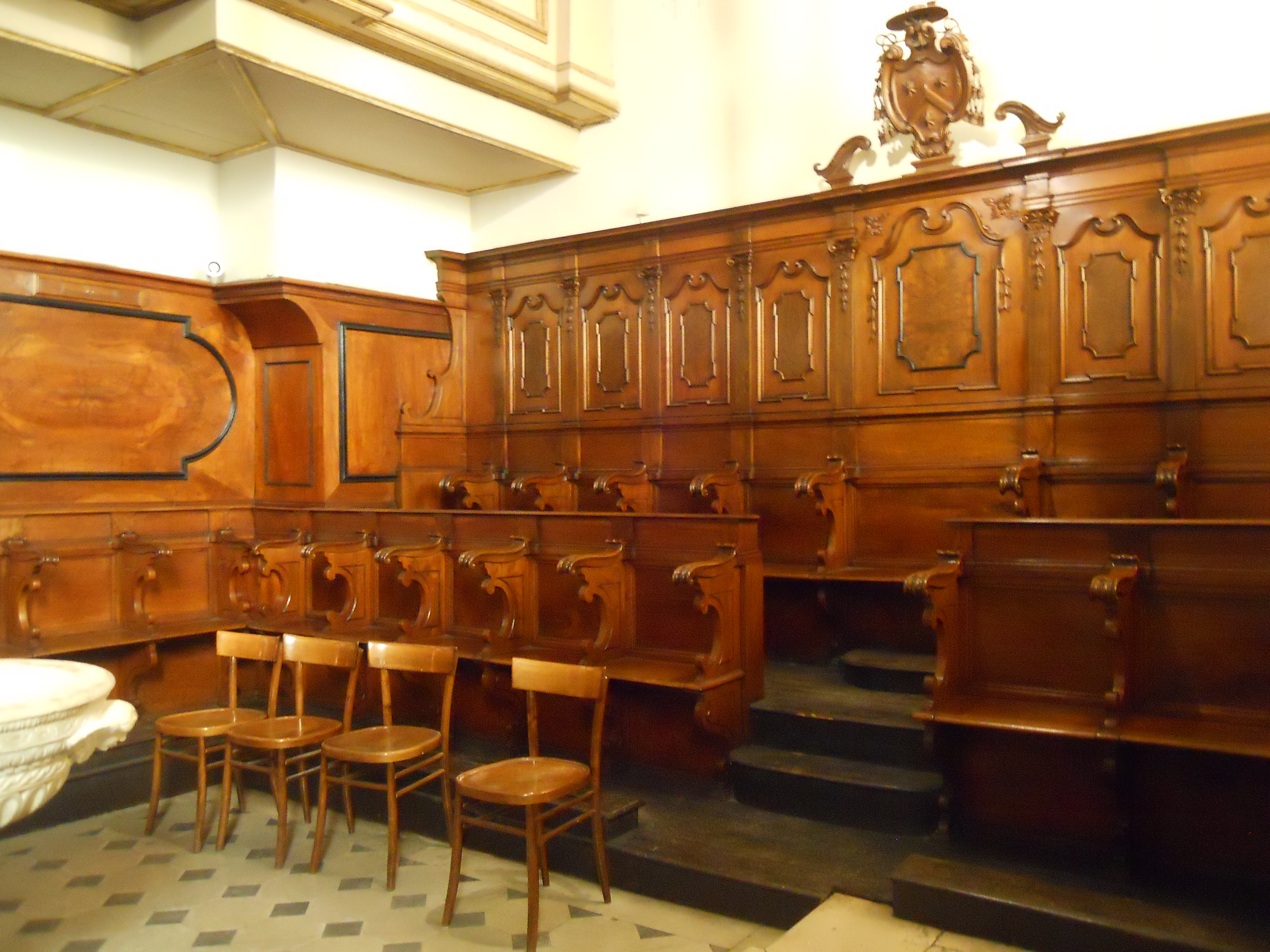 Cappella delle reliquie Chapel (also called Coro d'inverno) - Cathedral of Rieti (Lazio, Italy)